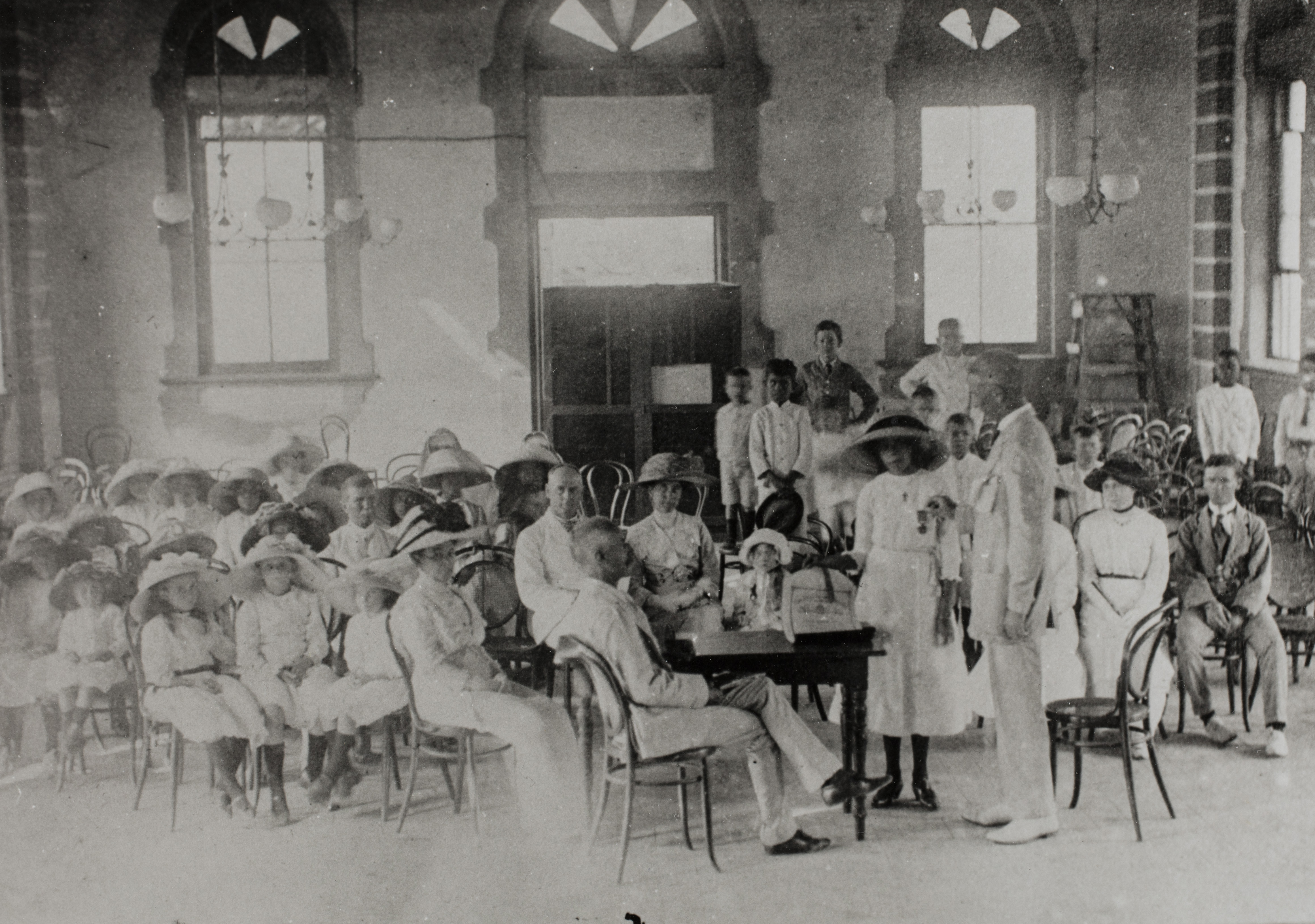 Crowd seated inside Palmerston Town Hall Smith Street, dressed clothing of the time. Gilruth presents bravery award to Cissy McLeod for saving Mrs Mugg from drowning. PH0412-0037